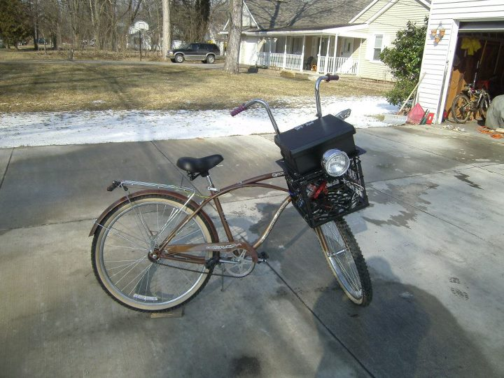 A bicycle with a headlight made of chrome